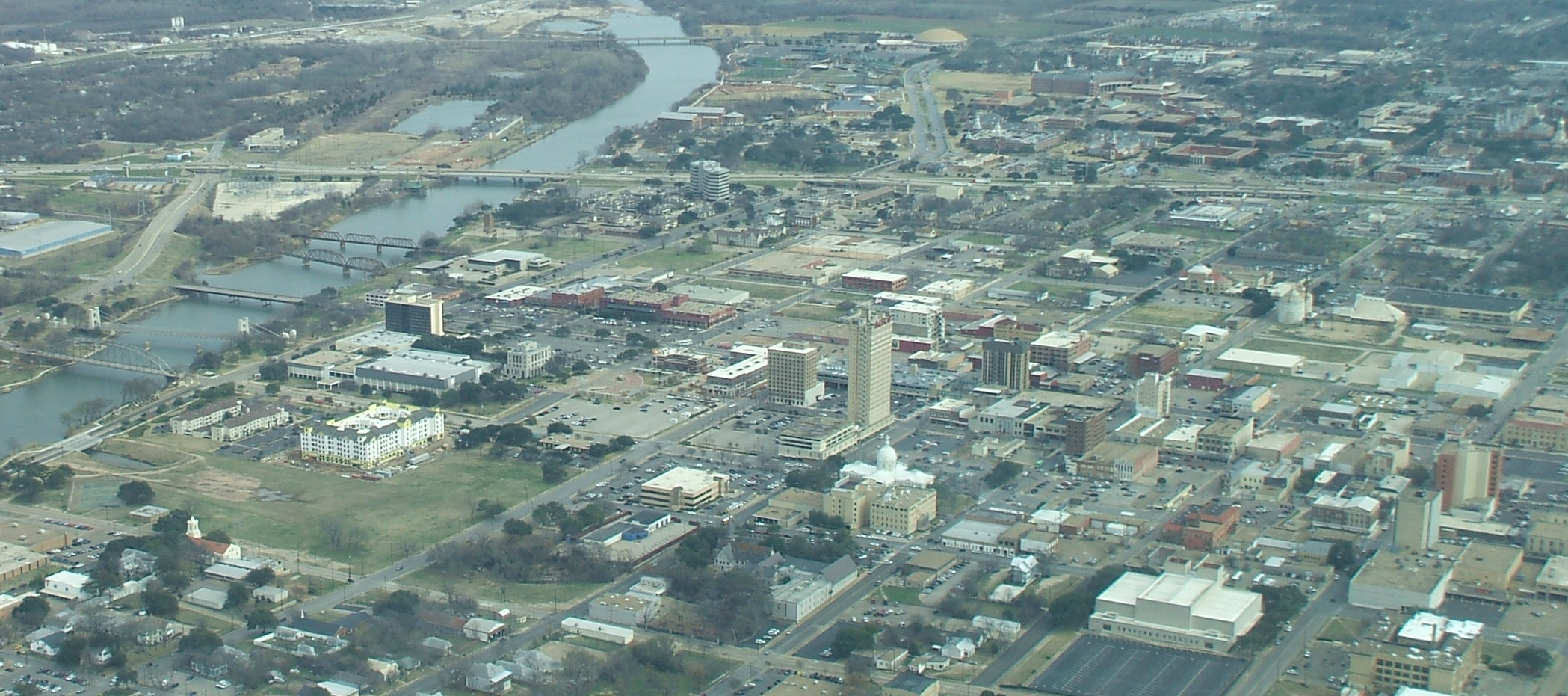 Aerial view of Downtown Waco, Texas, looking east.